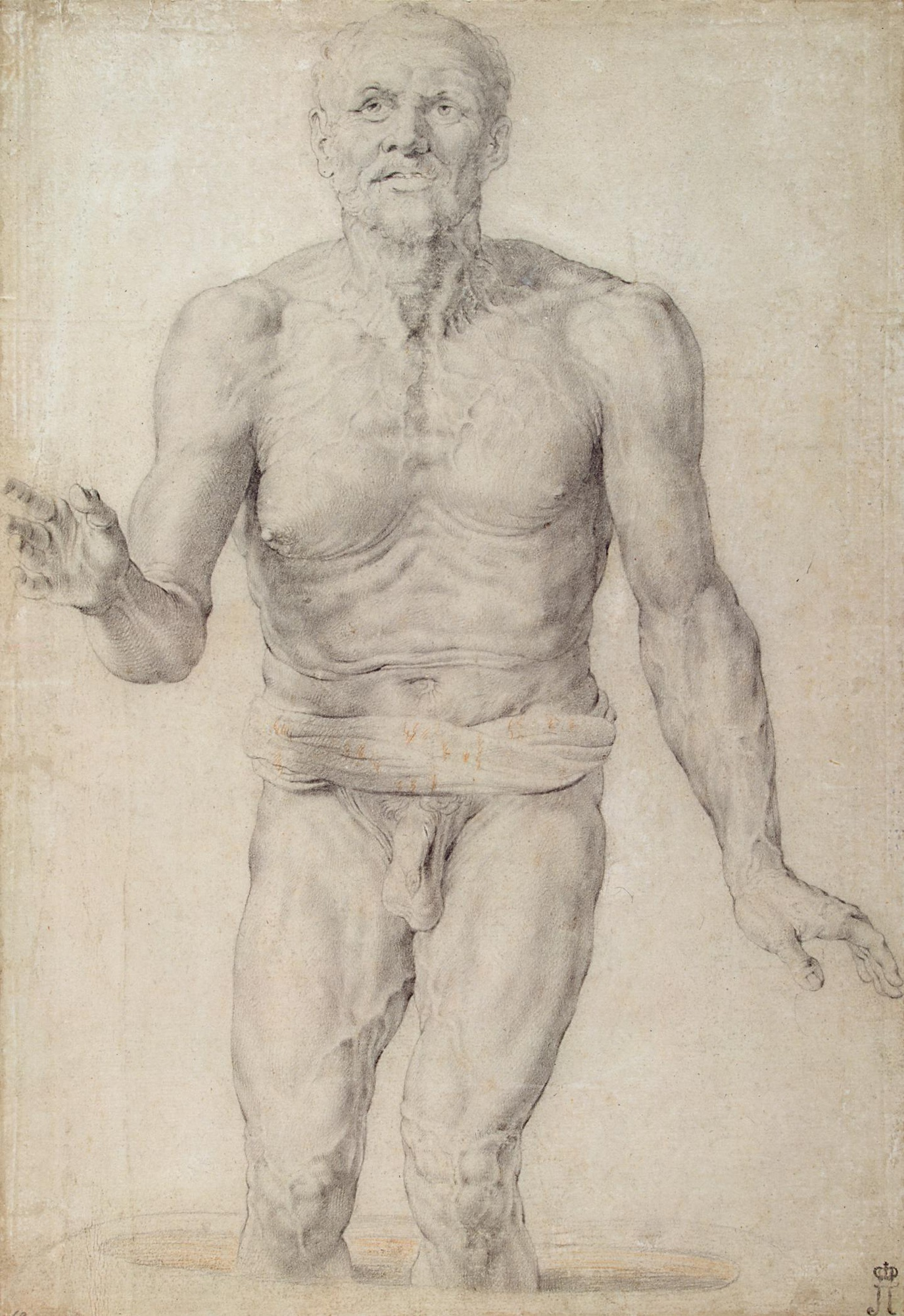 African Fisherman ("Seneca")